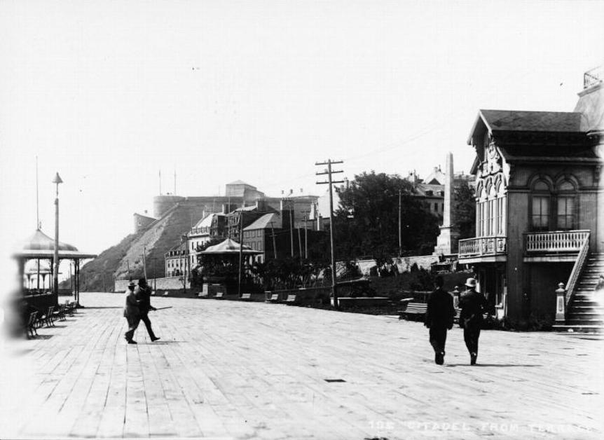 Dufferin Terrace looking towards the Citadel, Old Quebec, Quebec City, Canada.